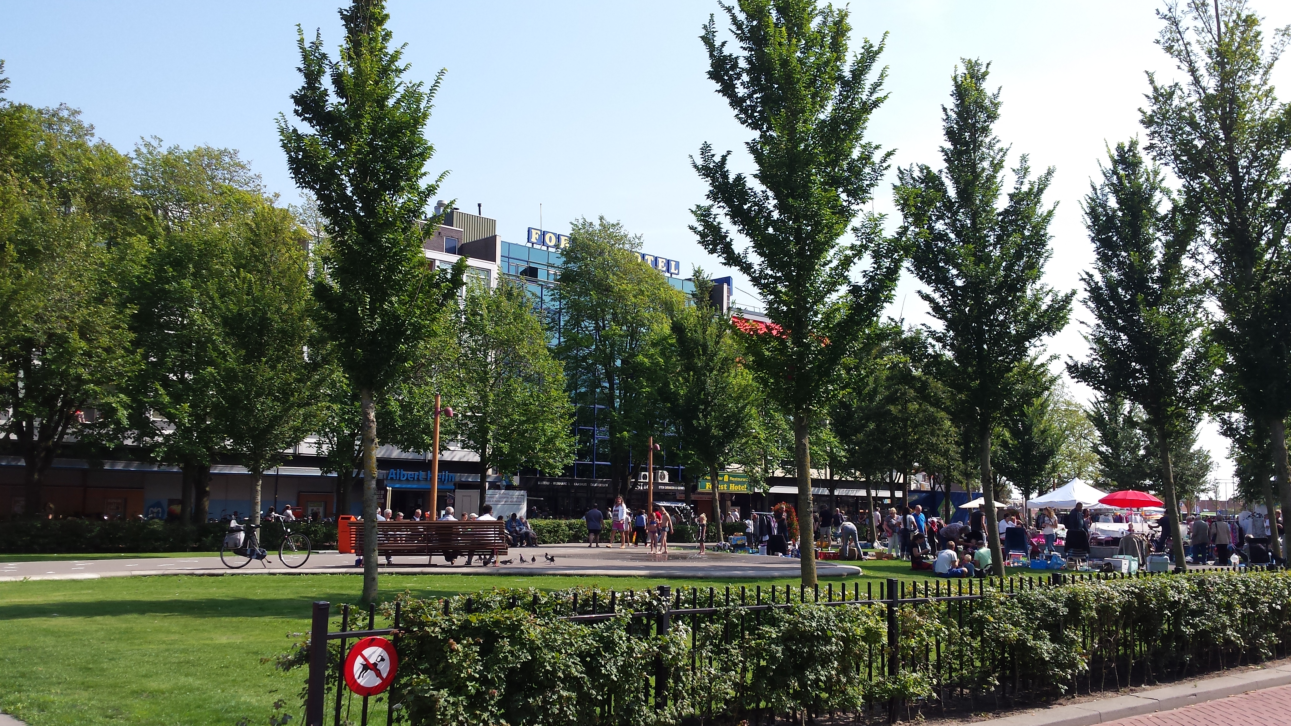 Den Helder - Market in city park